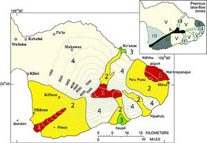 Map of Lava Flow Hazards Zones on Maui, per 2006 paper by Sherrod, et al. Maui Zone 1 is roughly equivalent to Hawai'i Island Zone 3, Maui Zone 2 is roughly equivalent to Hawai'i Island Zone 4, and Maui Zone 3 is roughly equivalent to Hawai'i Island Zone 6. In other words, no place on Maui has volcanic hazards equivalent to Lava-Flow Hazard Zones 1 and 2 on Hawai'i Island.